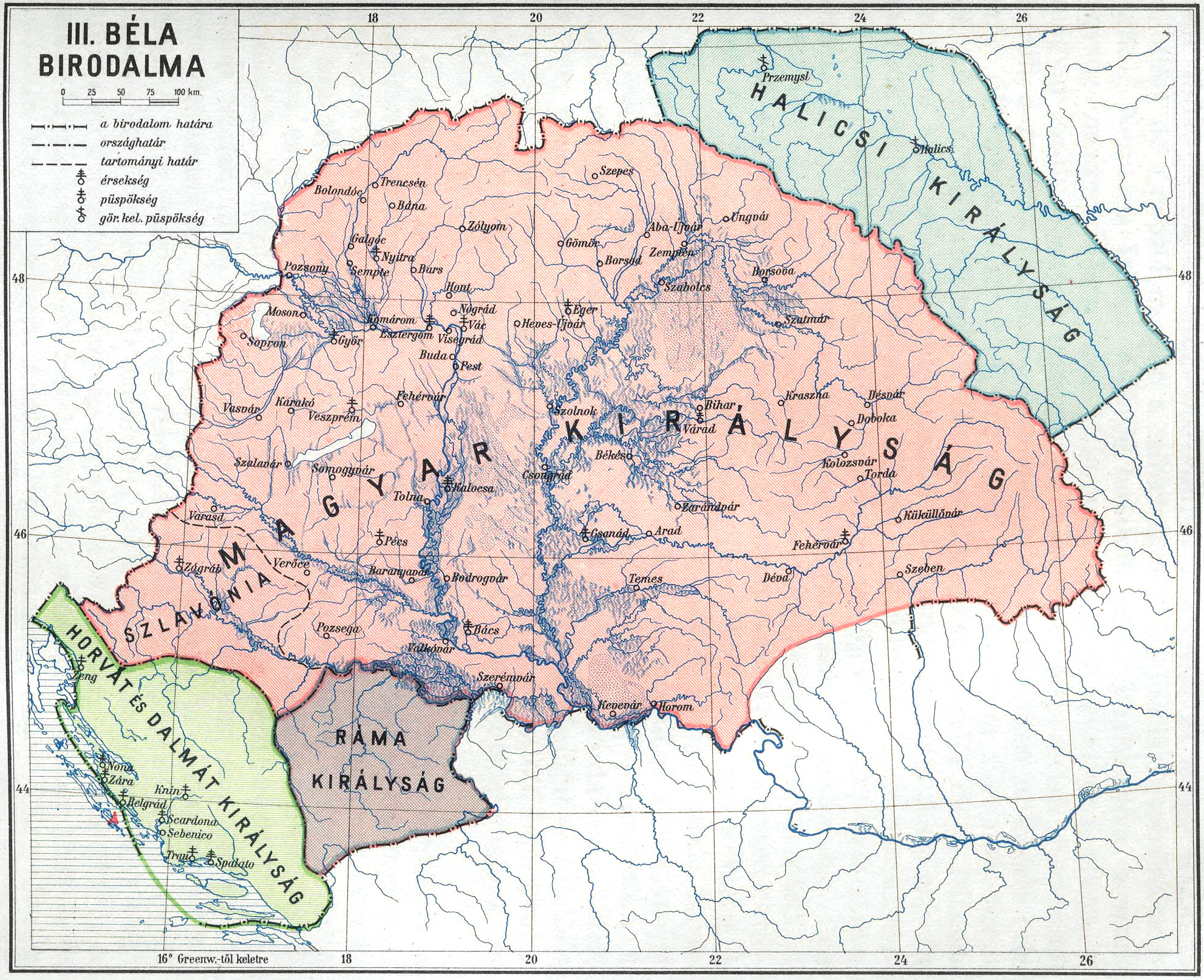 Lands, countries and kingdoms under king Bela III.